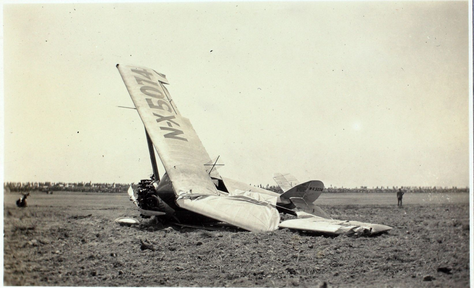 These photos are from an album (AL-47) donated to the Museum from Douglas Olseon. The album includes images of early airships, the Dole Air Race and other aircraft. Repository: San Diego Air and Space Museum Archive